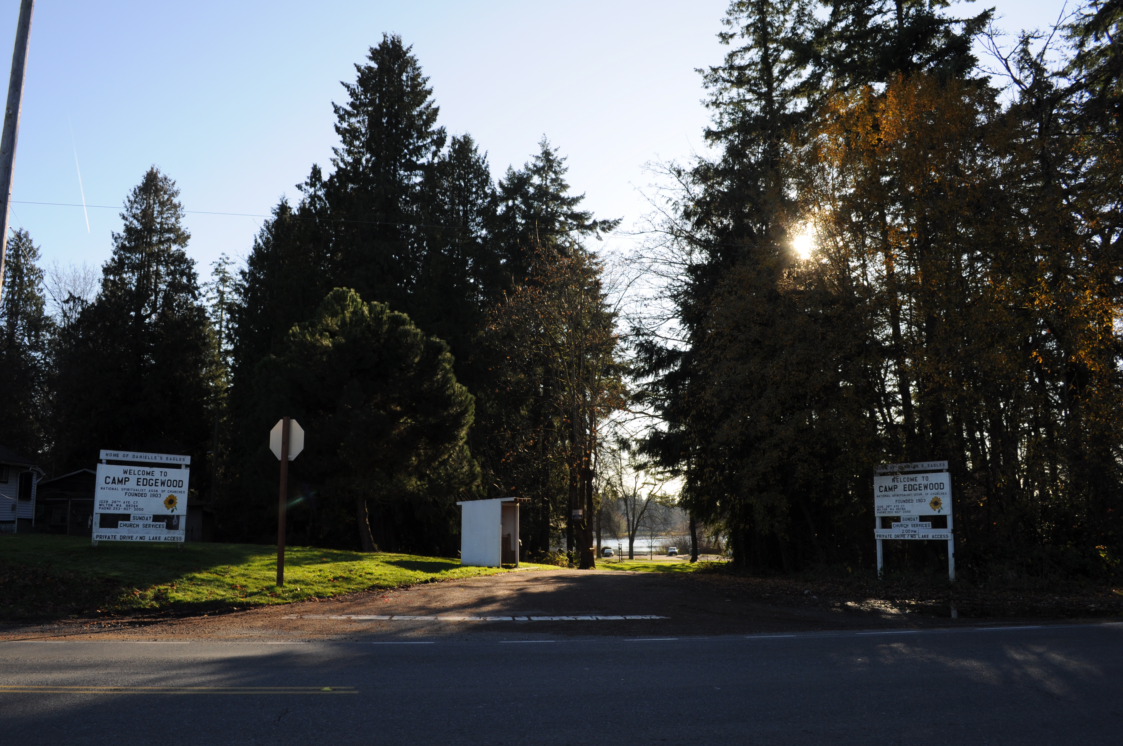 Entrance to the spiritualist Camp Edgewood (founded 1903) on Surprise Lake, Milton, Washington.